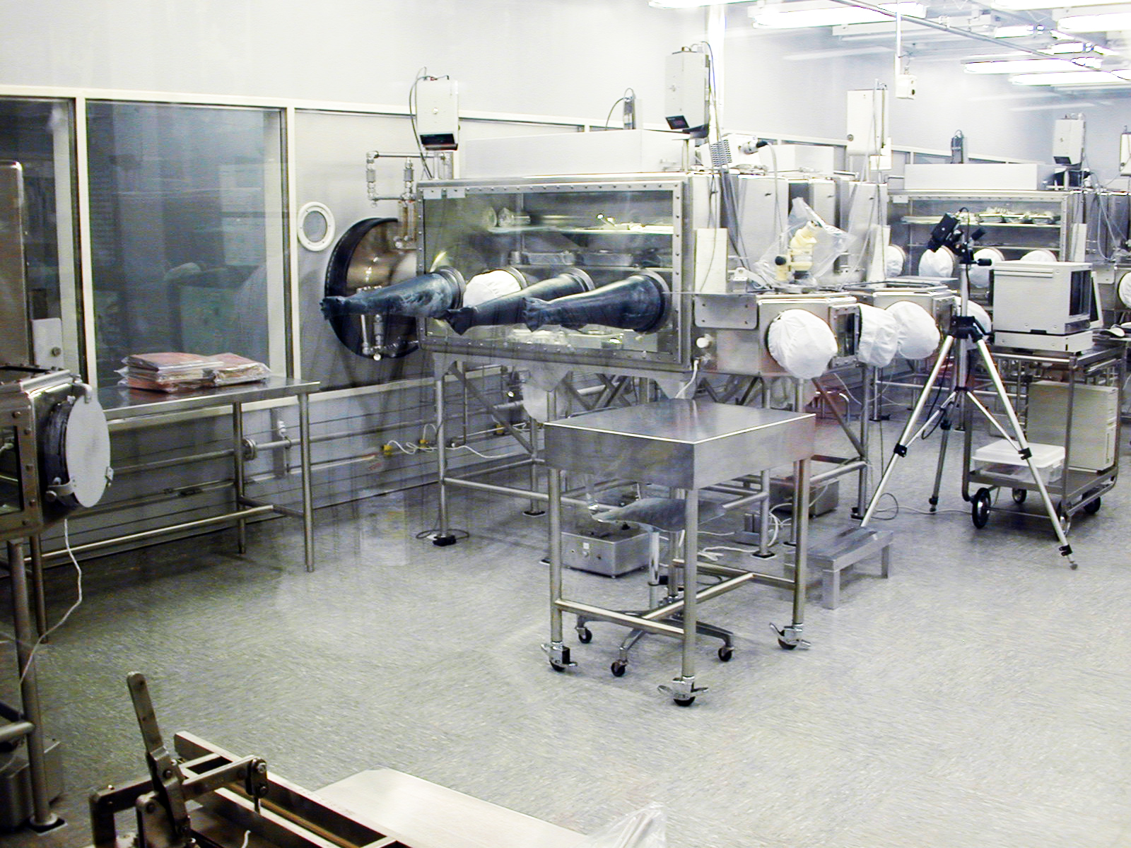 Part of the cleanroom lunar sample processing arrangements, showing the work areas, glove boxes and other provisions for avoiding lunar sample contamination at the Lunar Sample Building, Johnson Space Center, Houston, Texas